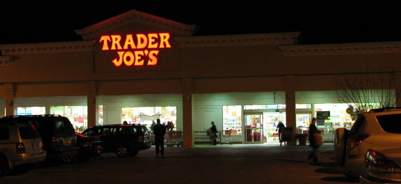 Trader Joe's in West Hartford, Connecticut